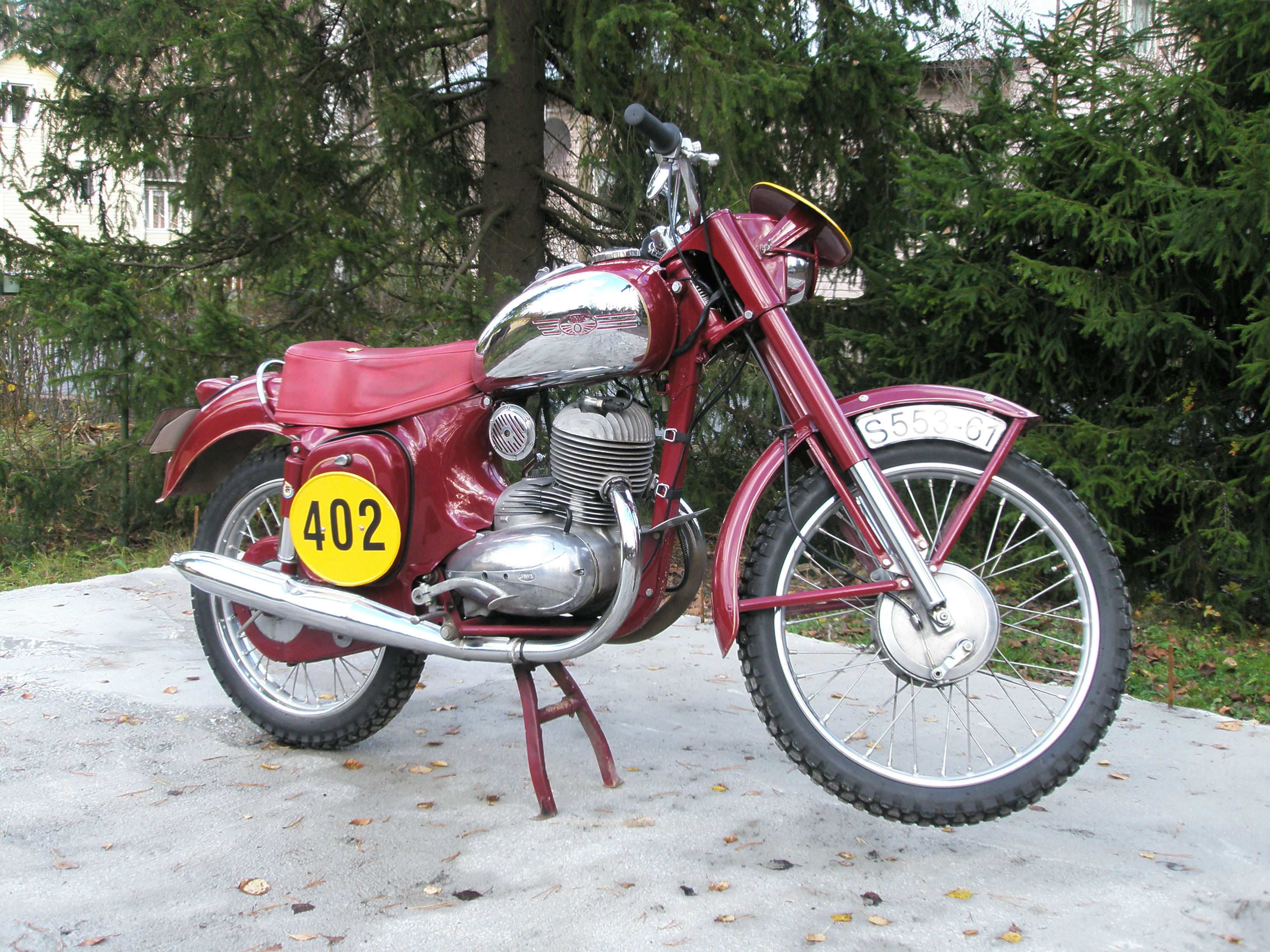 A two stroke 250cc Jawa motorcycle Model 553 Six Days, 1961